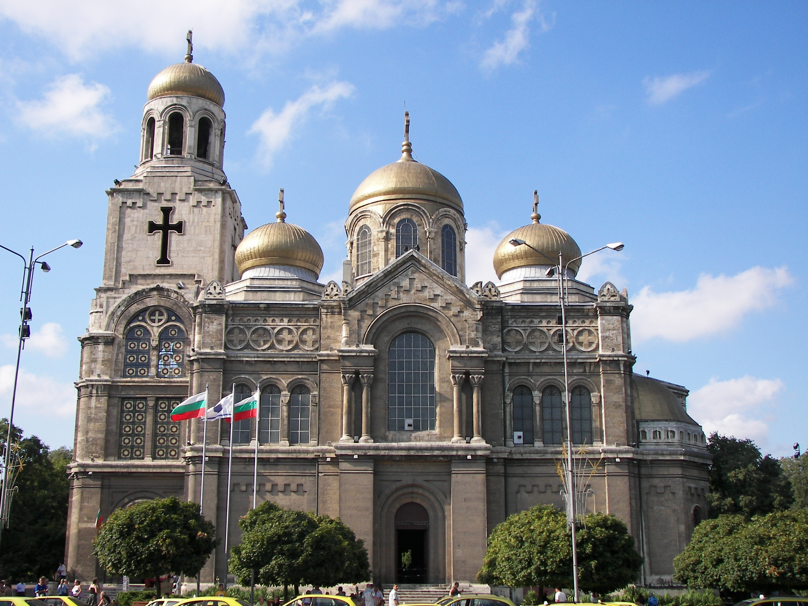 Varna